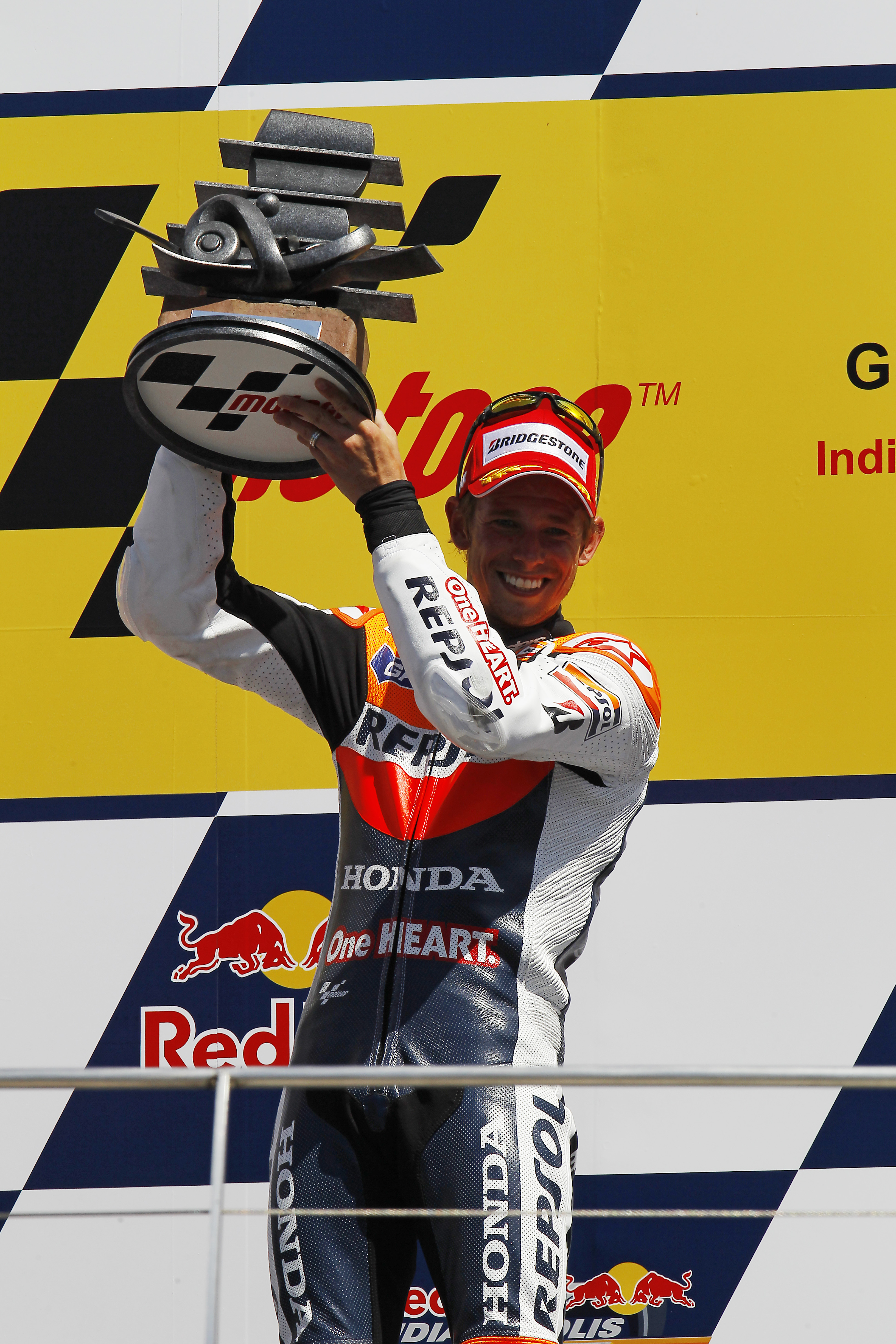 Casey Stoner, lifting his trophy and celebrating on the podium after winning the 2011 Indianapolis Grand Prix.